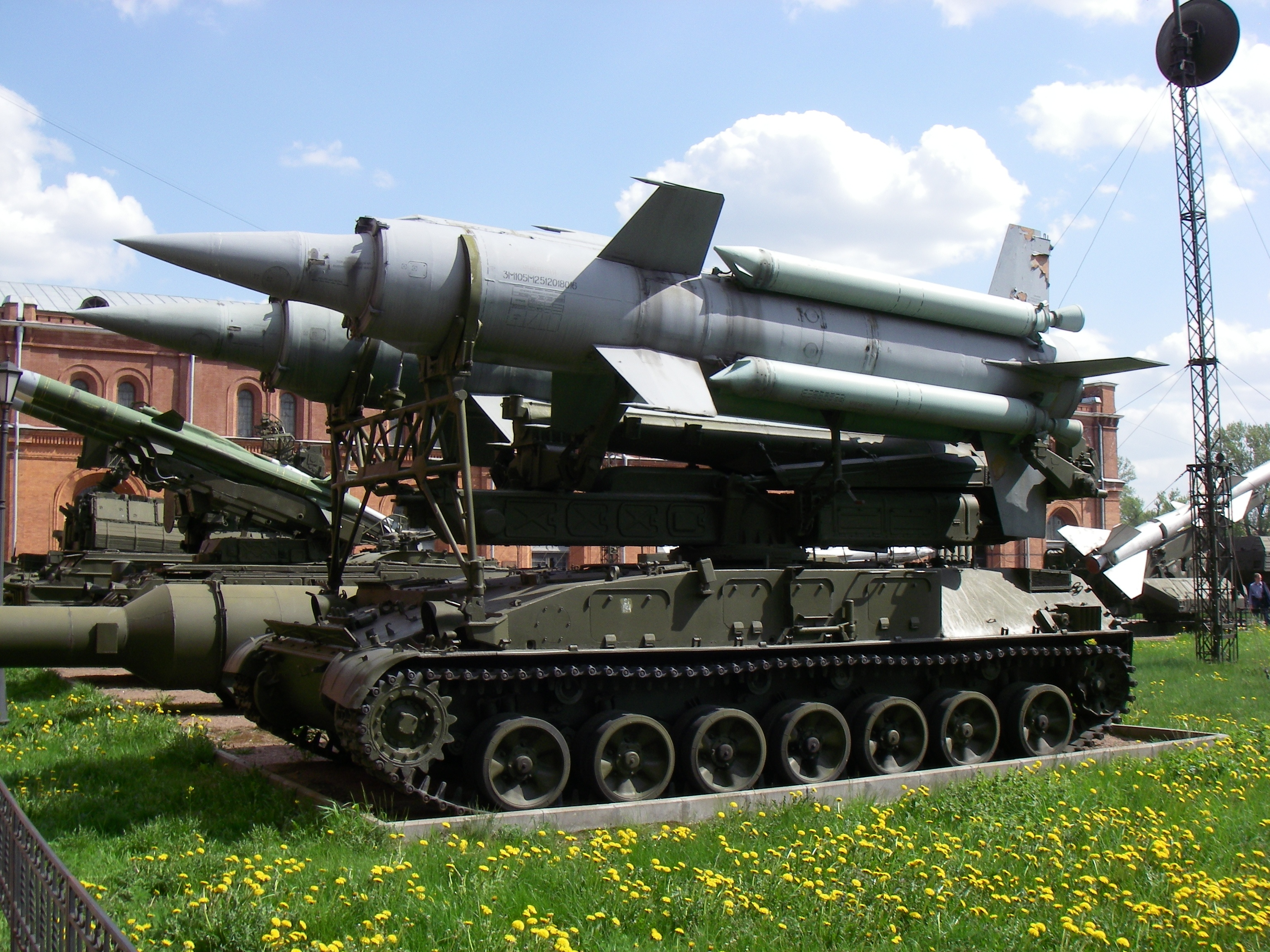 2P24 Transporter-Erector-Launcher with two 3M8 missiles of 2K1 surface-to-air missile complex «Krug» in Saint-Petersburg Artillery museum